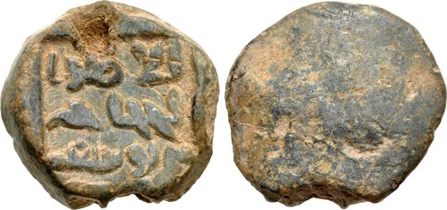 ISLAMIC, Umayyad Caliphate. al-Hajjaj bin Yusuf. Amir, AH 75-95 / AD 694-714. PB Seal (22mm, 13.13 g). “al-amr a/l-Hajjaj/bin Yusuf” in Arabic within incuse square / Blank. Cf. Christie’s (17 October 1997), 354 (for a similar example). VF, earthen deposits.